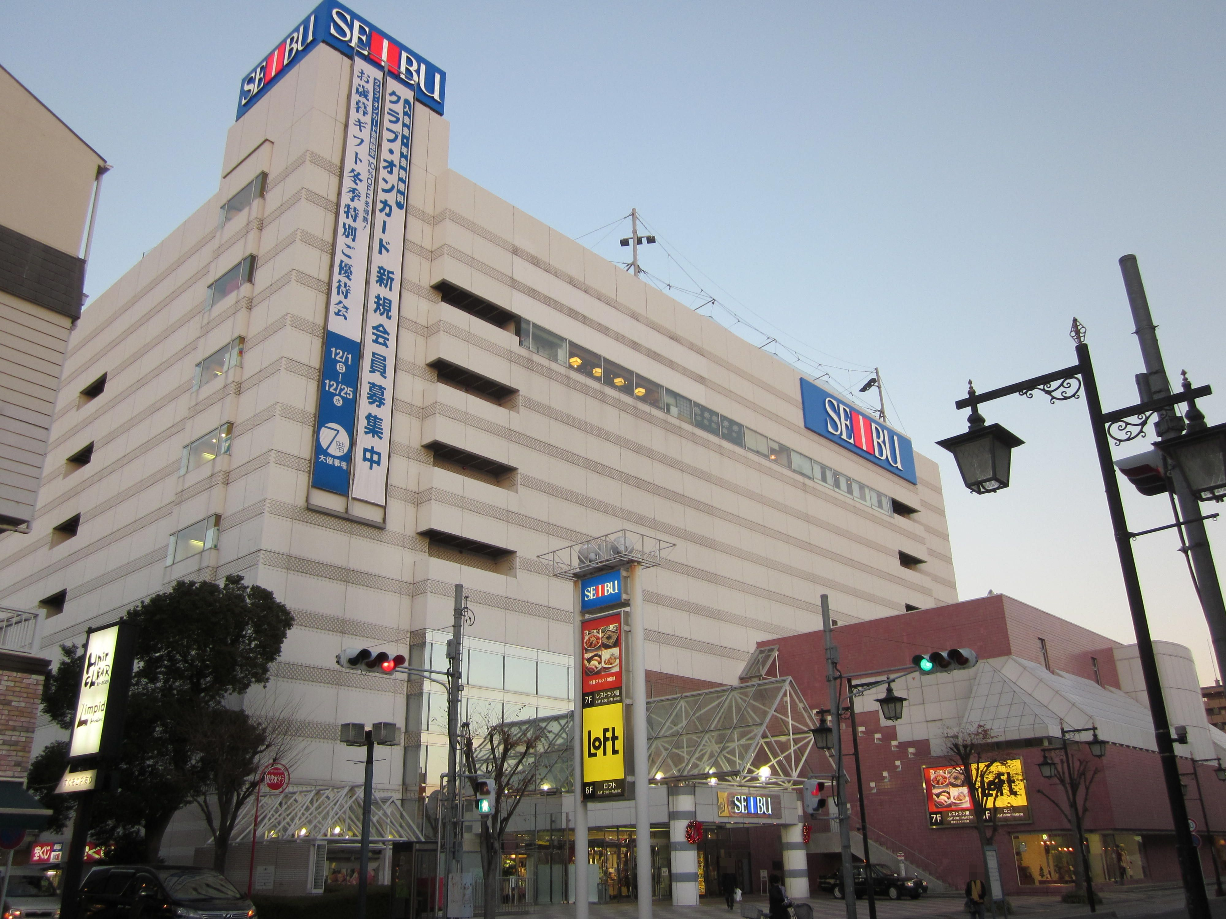 Seibu Department store in kasukabe, Saitama.